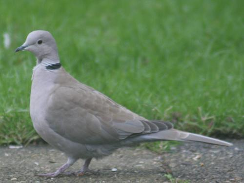 Eurasian Collared Dove